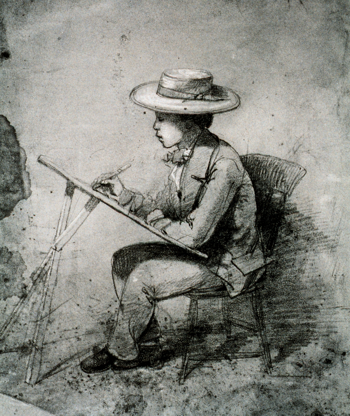 Sketch of John Ross Key by James McNeill Whistler. Sketched in the Coast Survey office in 1854. Key was a nephew of Francis Scott Key He was a draughtsman in the office at the time of the drawing. Image ID: theb3923, NOAA's People Collection Location: Washington, D.C Photo Date: 1854 Credit: Sketch by James McNeill Whistler